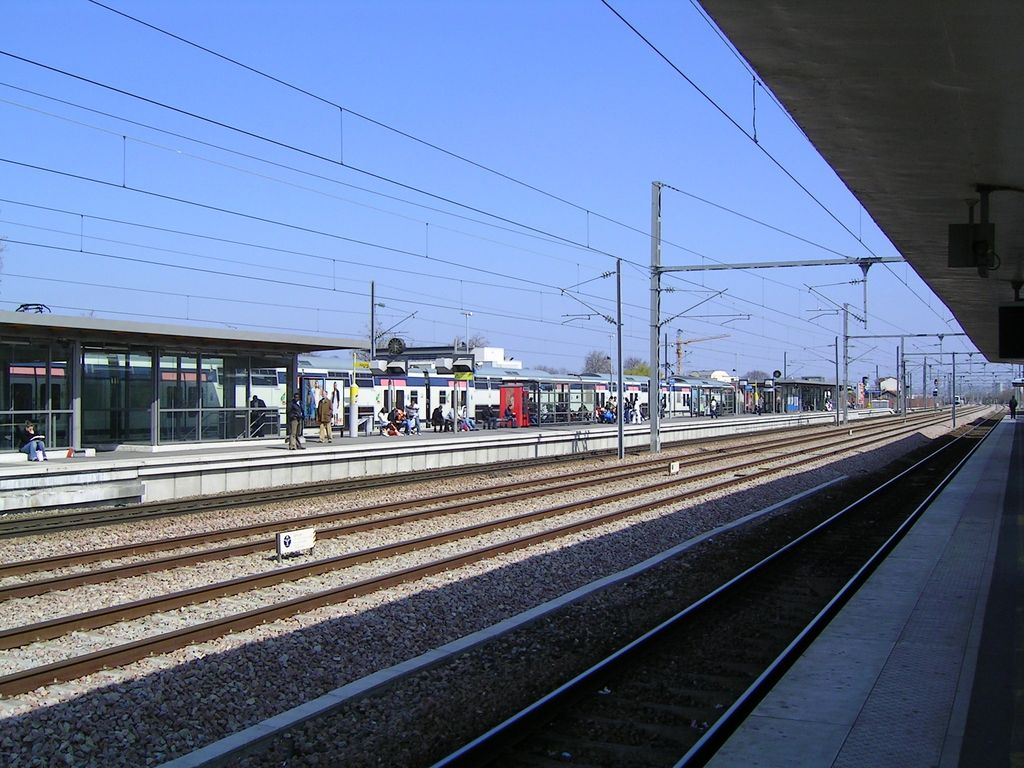 Gare de Chelles, RER E Photo personnelle (own work) de Marianna